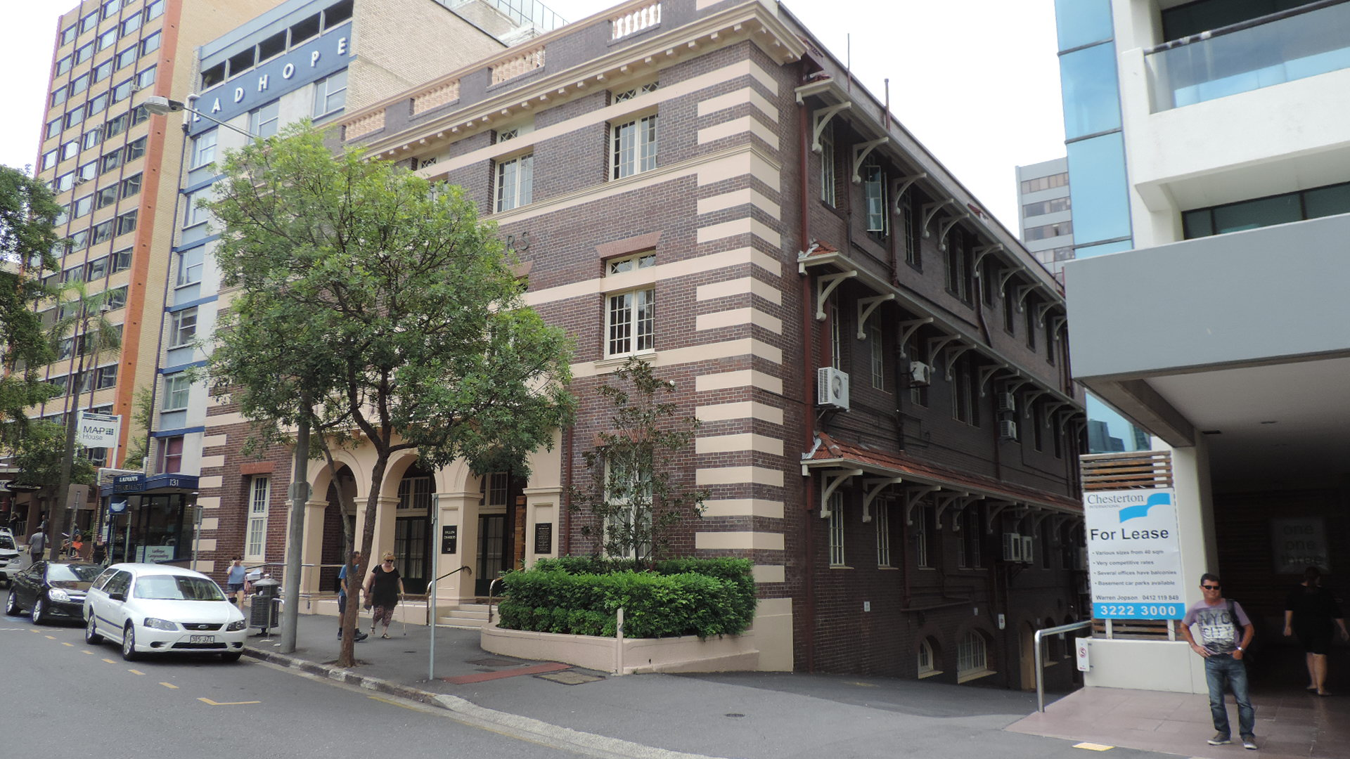 Ballow Chambers, Wickham Terrace, 2015 - side view